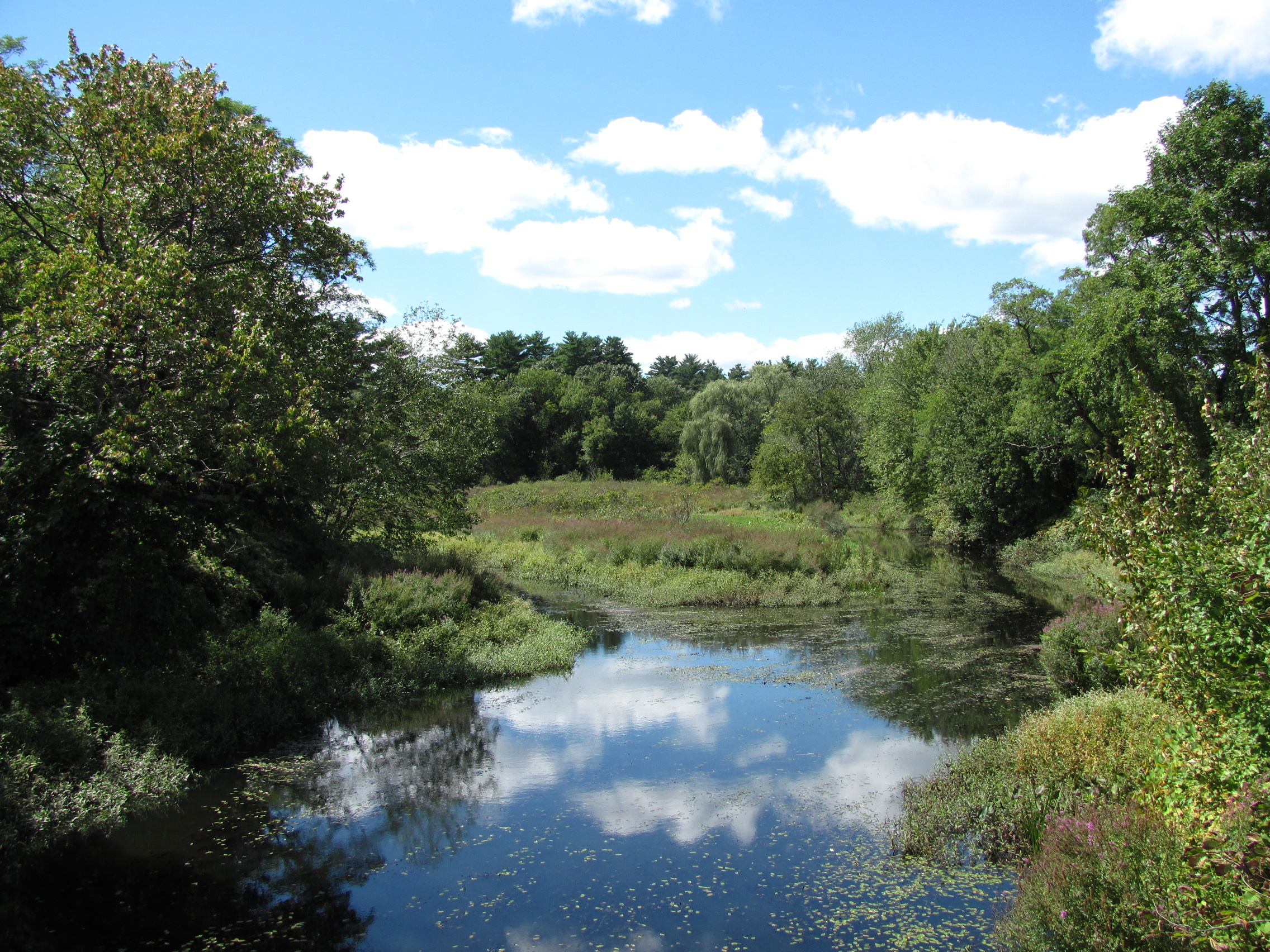 Shawsheen River, Pinehurst Massachusetts, September 2010